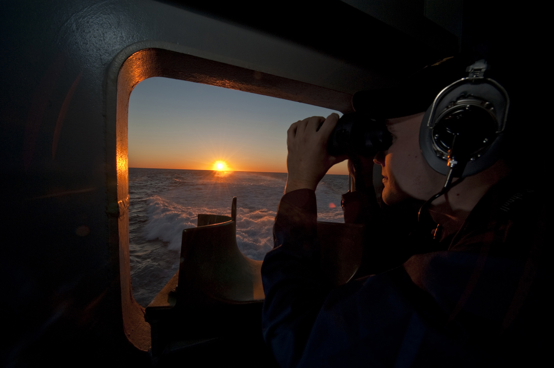 ATLANTIC OCEAN (Jan. 29, 2012) Seaman Samuel Flaspolar stands starboard lookout watch on the fantail of the aircraft carrier USS George H.W. Bush (CVN 77). George H.W. Bush is in the Atlantic Ocean conducting carrier qualifications.